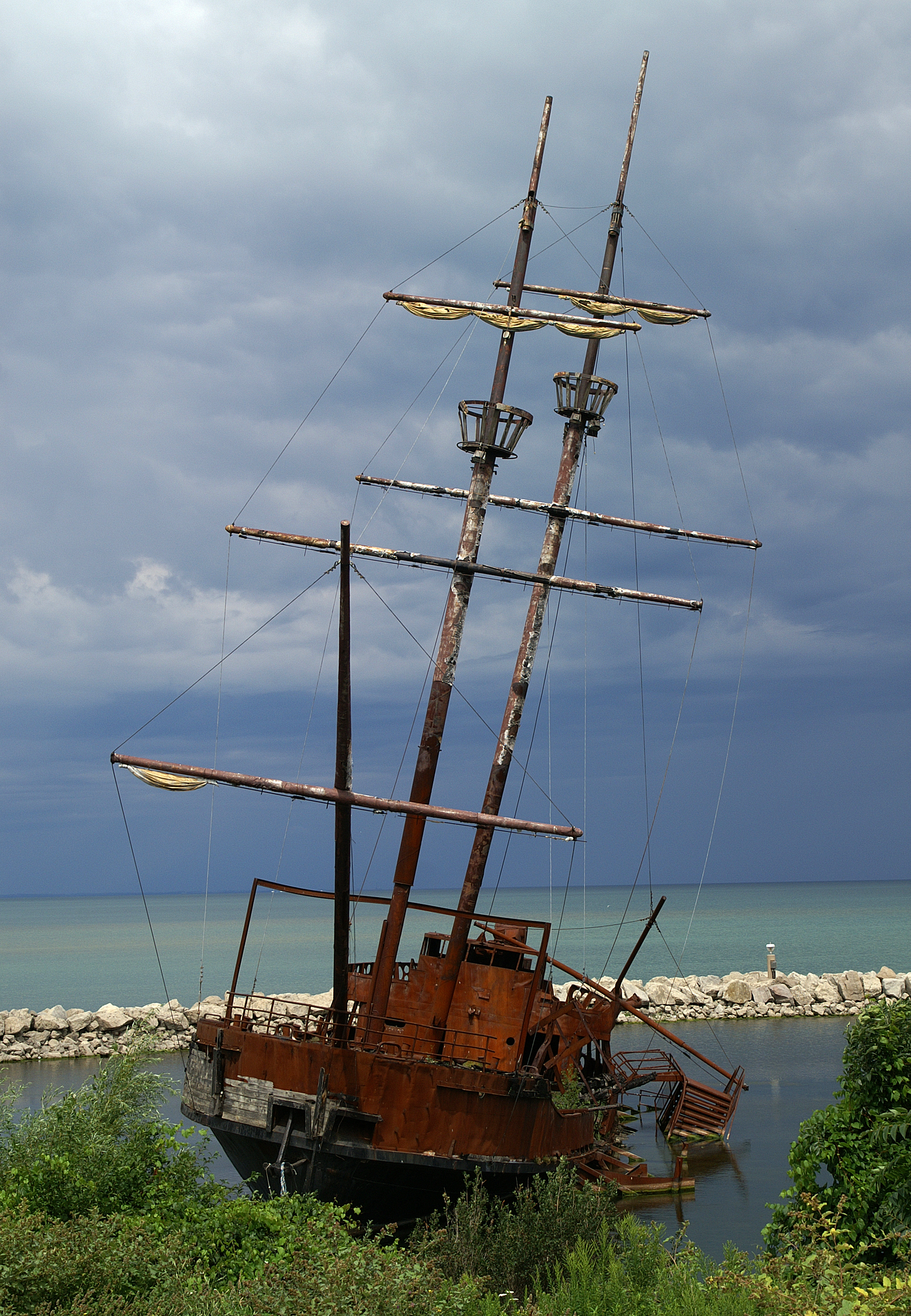 A replica of the "la Grande Hermine" shipwrecked and burned.